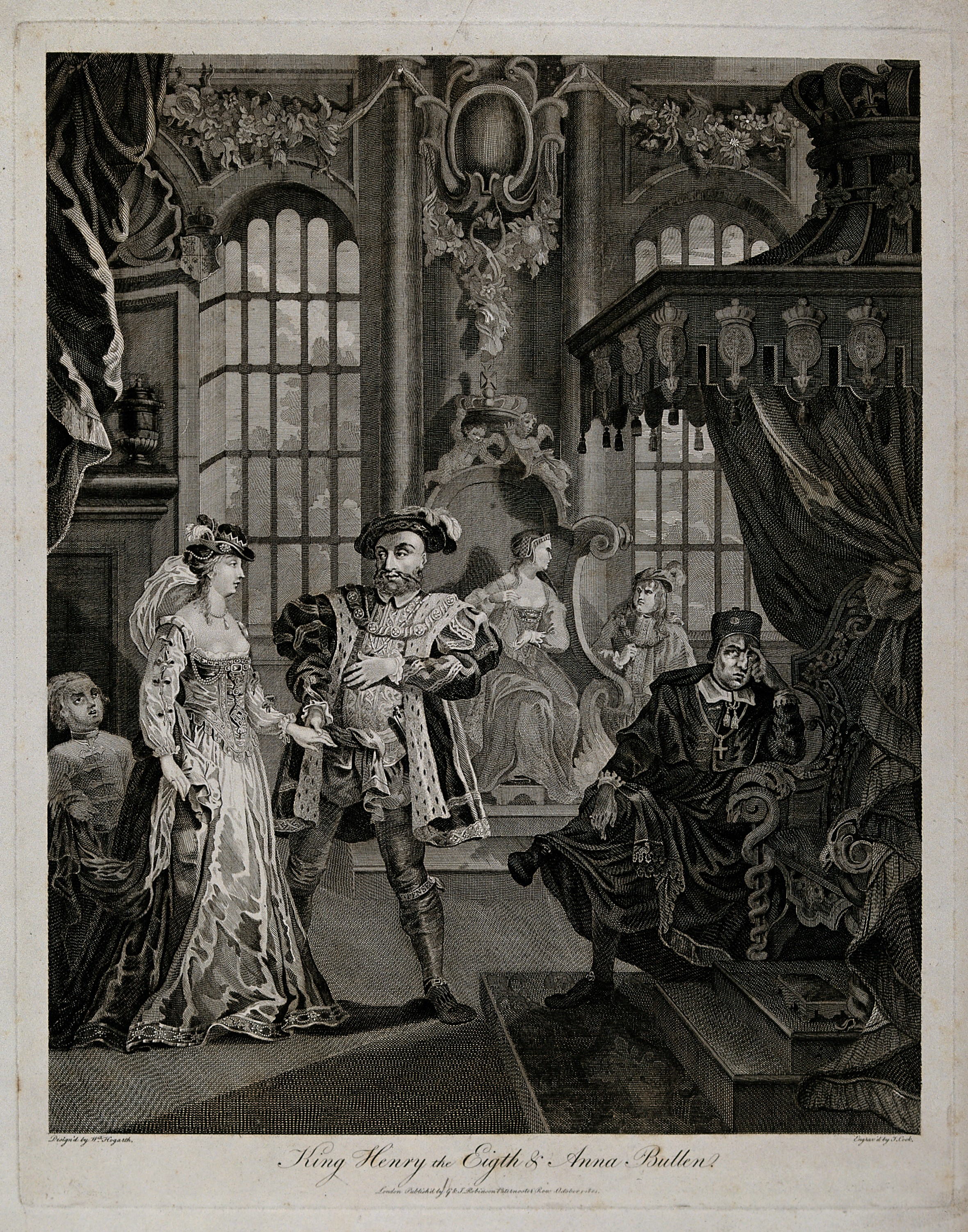 King Henry VIII courts Anne Boleyn. To the side a seated cleric (Wolsey?) can be seen, in the background a lady (Catherine of Aragon?) sits on a throne. Iconographic Collections Keywords: Anne Boleyn; Henry VIII; Thomas Cook; William Hogarth